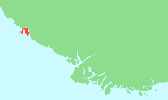 Locator map of Eigerøy, Rogaland, Norway